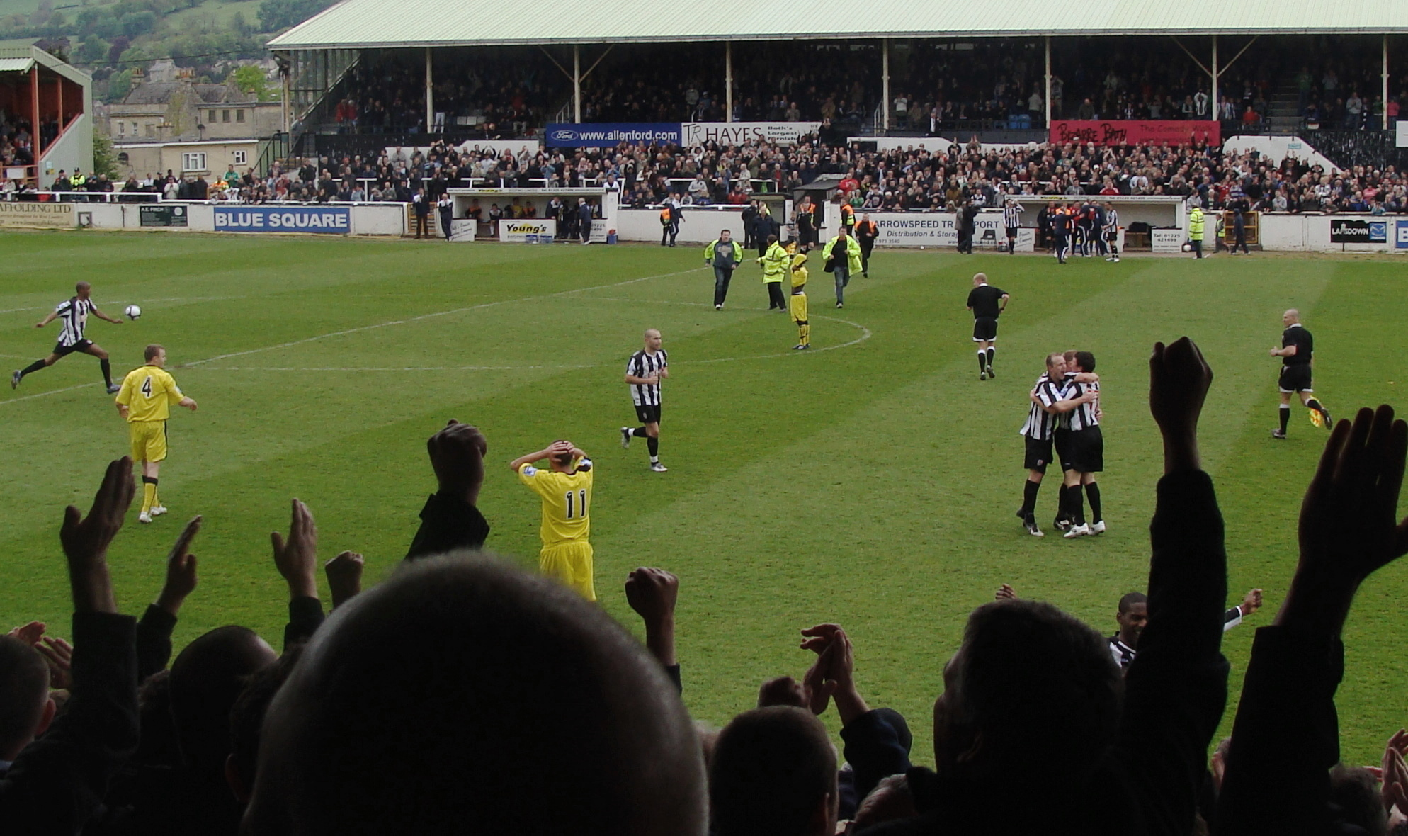 Bath City v Woking, Twerton Park